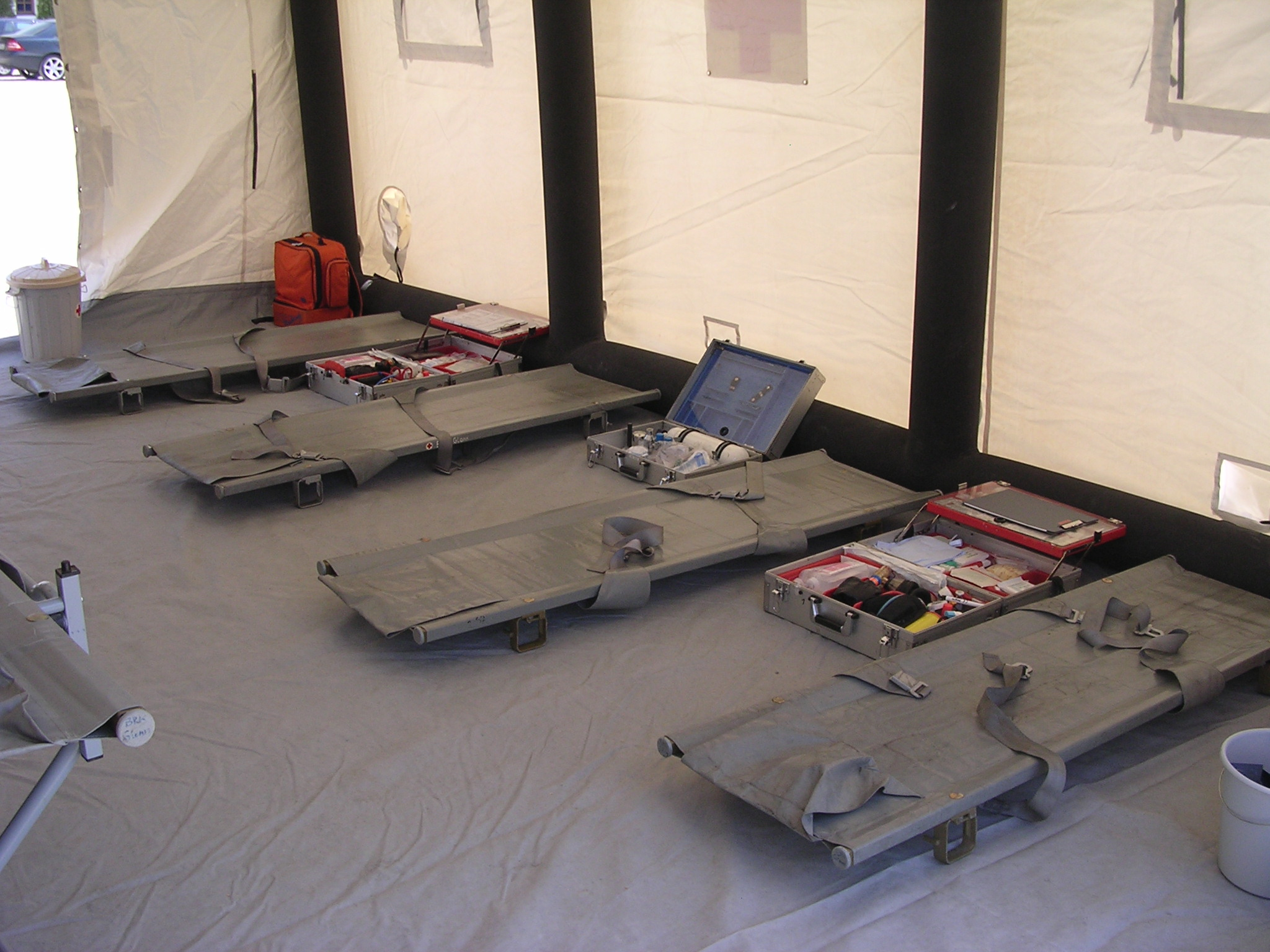 Inside view (right side) of a standard medical tent for triage categorie 1 as used in Bavarian Red Cross (Germany) 50 victims/hr. disaster casualty station, featuring equipment of 2nd medical rapid disaster response group of county of Ebersberg.